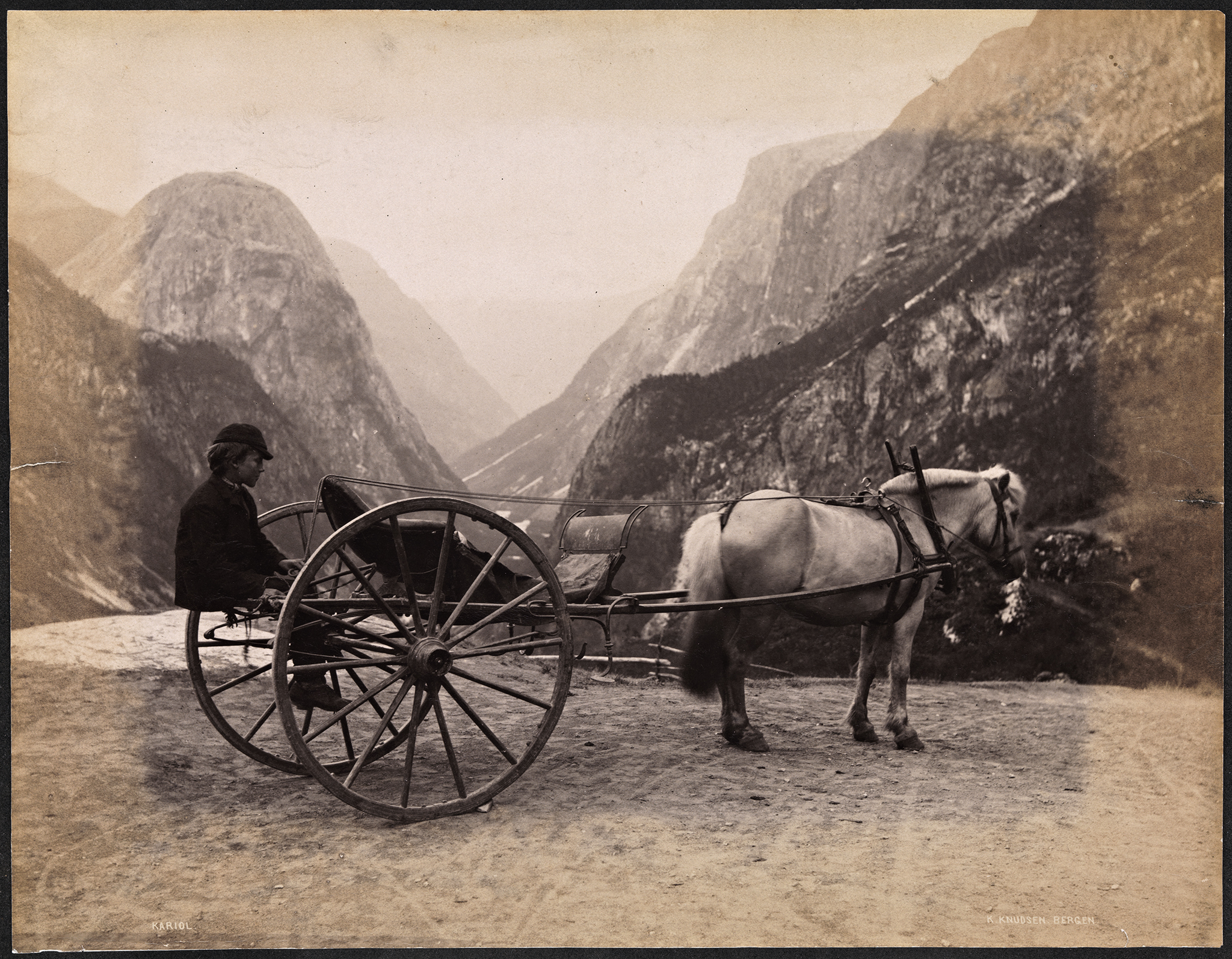 Tittel / Title: Kariol Dato / Date: ca 1888-1894 Fotograf / Photographer: Knud Knudsen (1832-1915) Sted / Place: Sogn og Fjordane, Nærøydalen - Hordaland, Voss, Stalheim Eier / Owner Institution: Nasjonalbiblioteket / National Library of Norway Lenke / Link: Bildesignatur / Image Number: bldsa_FA1352